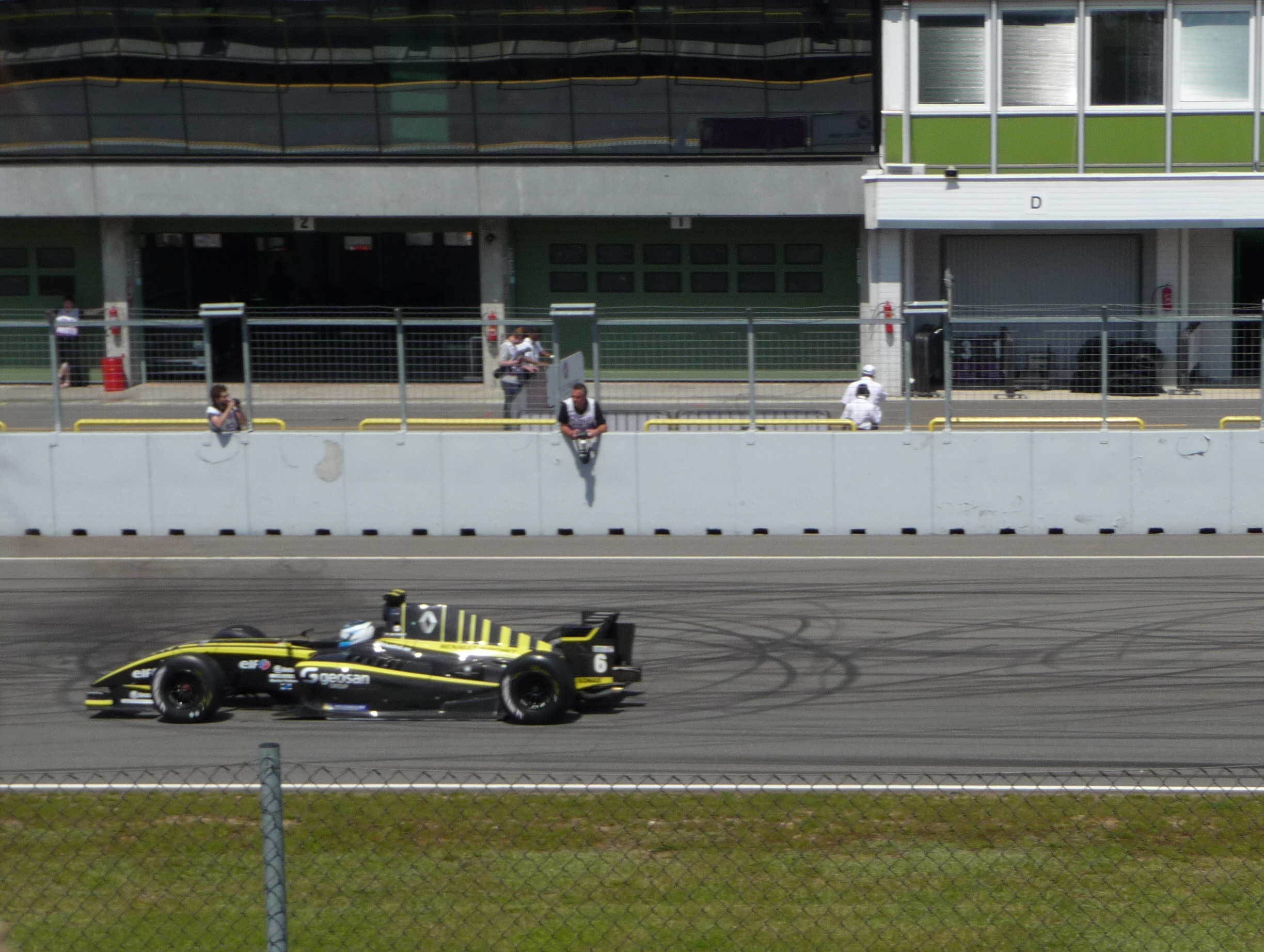 Jan Charouz, Formula Renault 3.5 Series, 2nd race, 2010 Brno World Series by Renault -10-5-3-2◄►+2+3+5+10